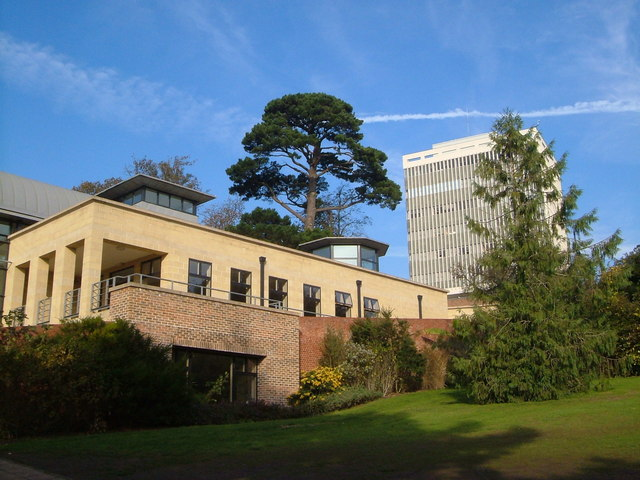 Institute of Arabic and Islamic Studies, University of Exeter In the background, the School of Physics building.